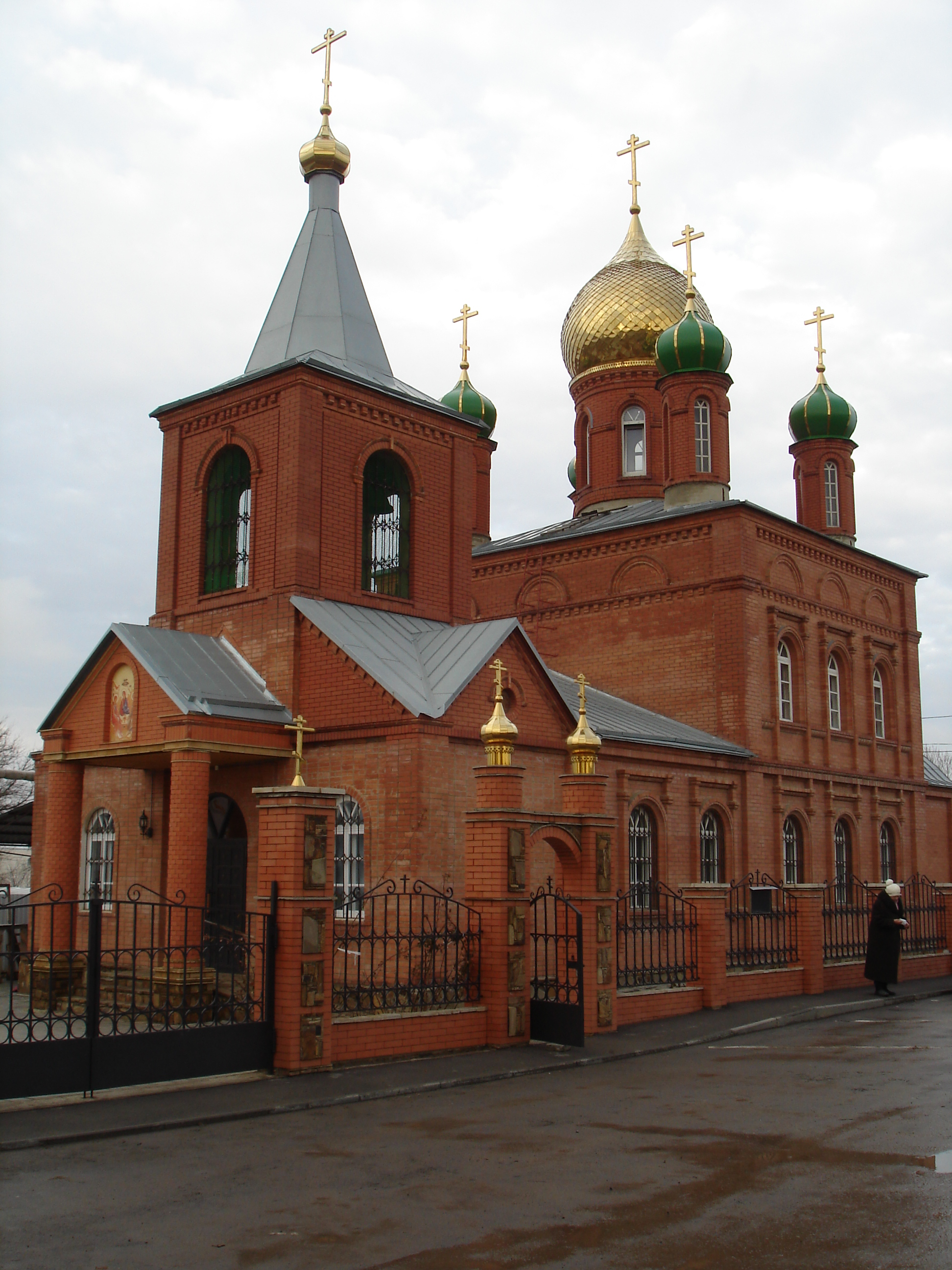 Каменск-Шахтинский, церковь Троицы Живоначальной